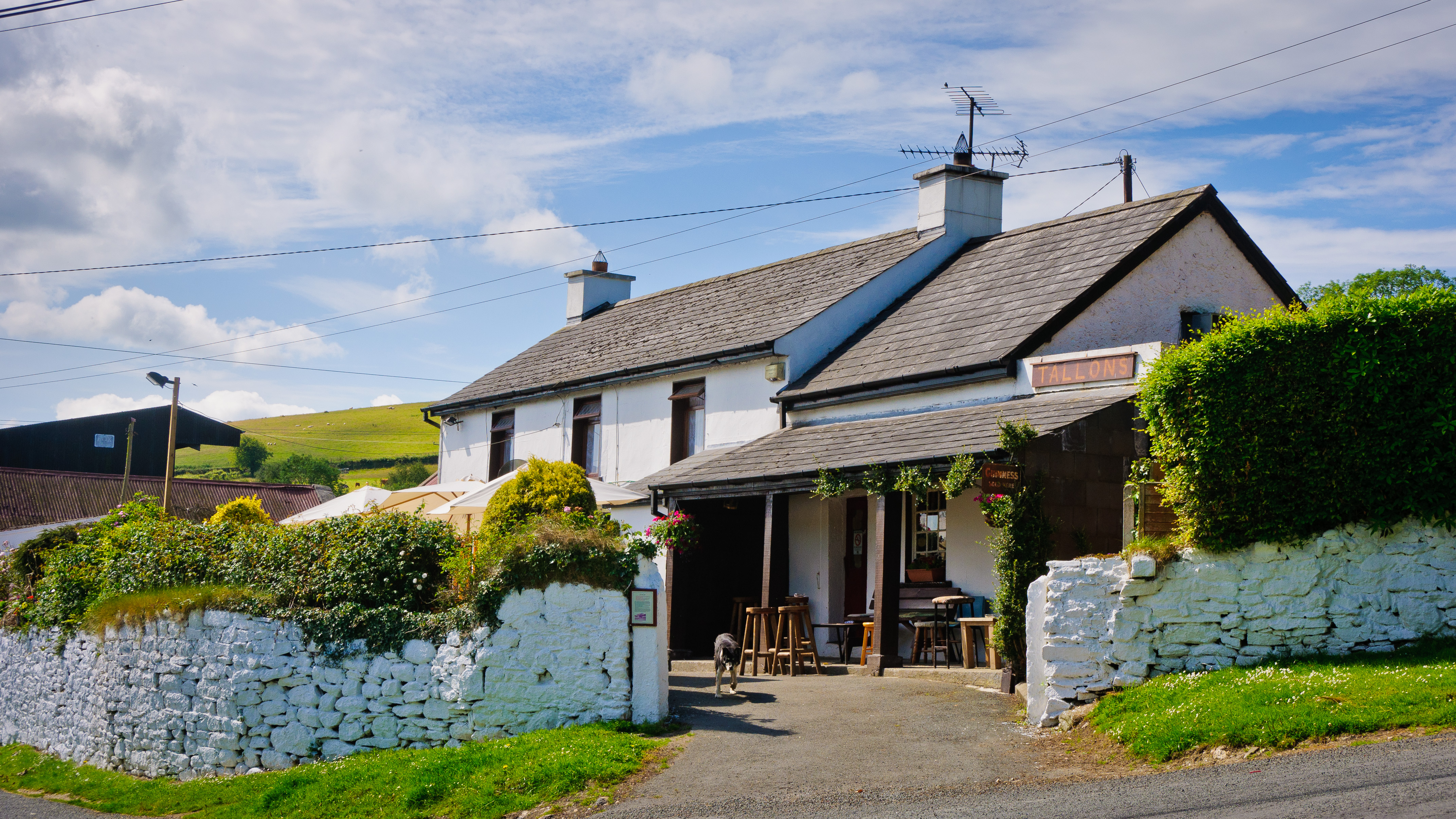 Tallon's Pub, Stranakelly Crossroads, County Wicklow, Ireland. The pub is better known as "The Dying Cow". This comes from a story associated with the pub that it was raided one night by the Gardai (police) for serving drinks outside of licensing hours. The widow who ran the pub defended herself by claiming she was merely serving refreshments to neighbours who had helped her with her dying cow.